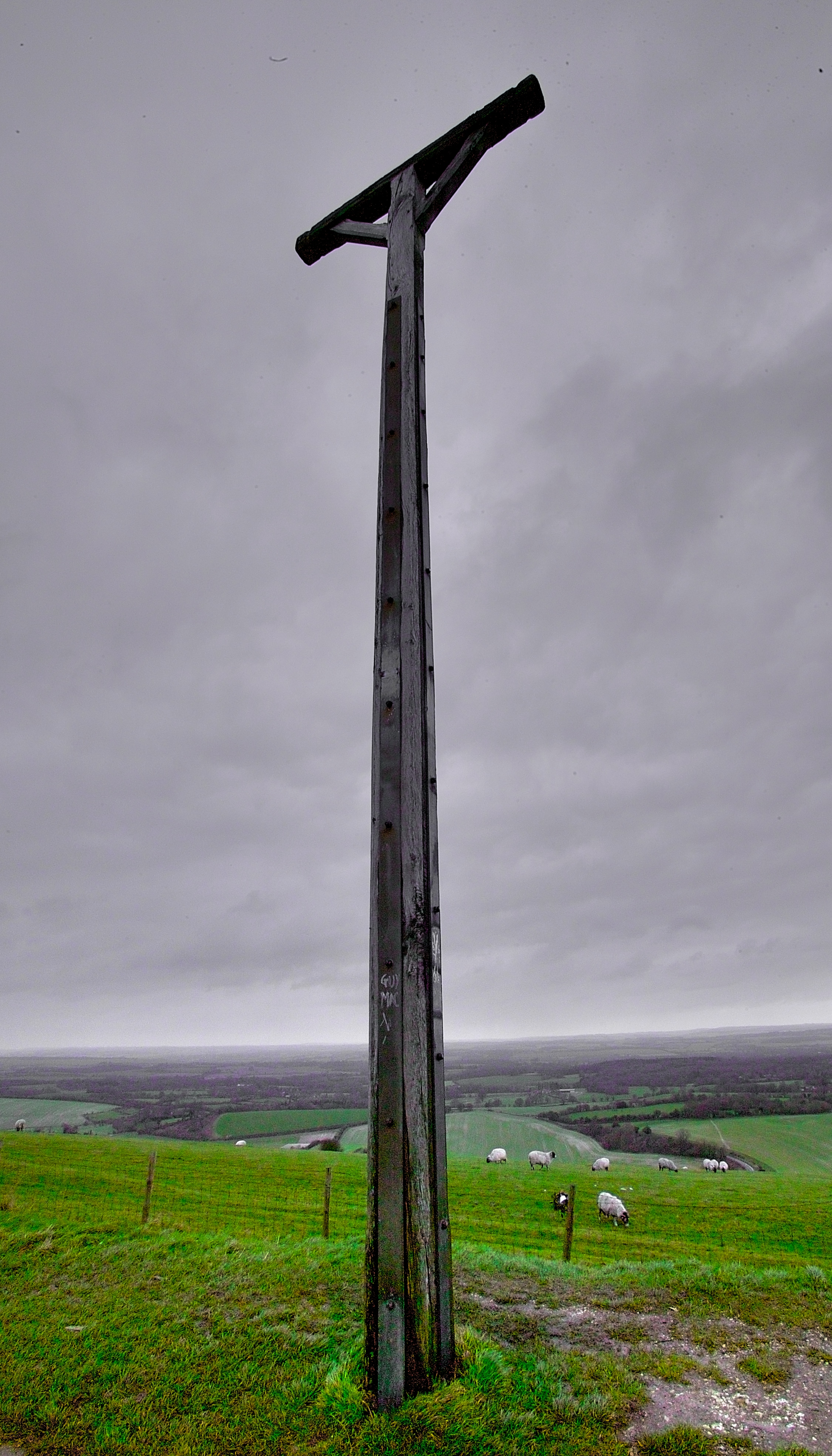 View from Combe Gibbet, looking North